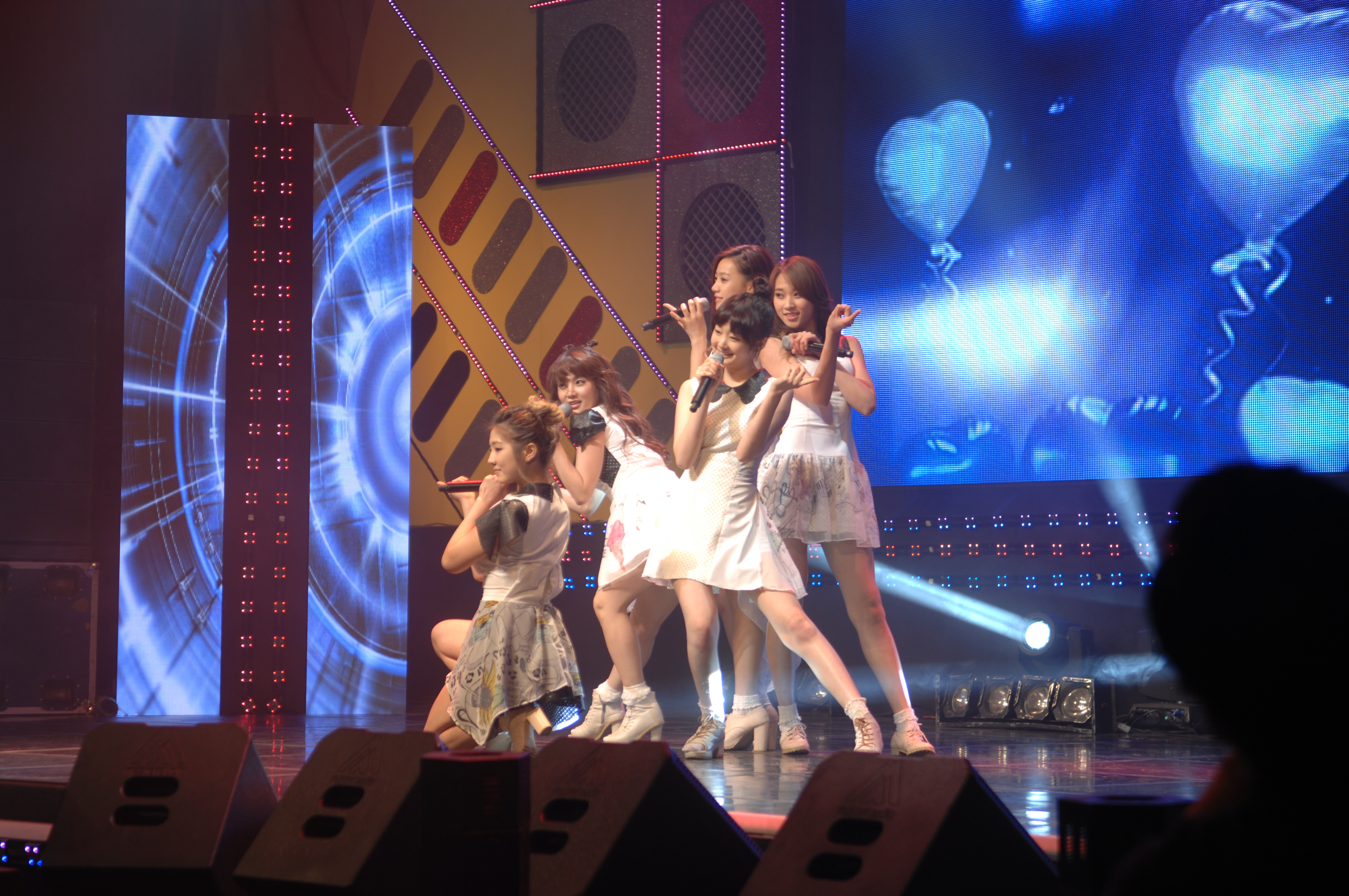 Click here to learn more about Camp Humphreys U.S. Army photos by Jaeyeon Sim and Tanya Im